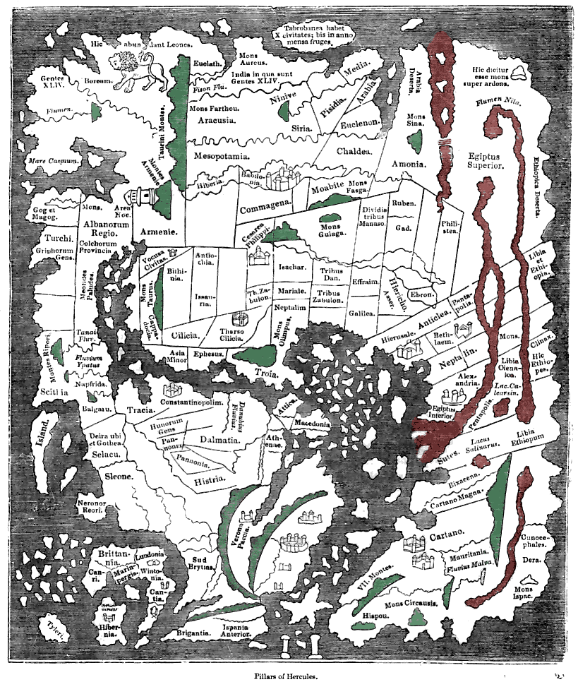 Tracing of the 'Cotton' Anglo-Saxon world map (British Library; Cotton MSS, Tib. B. V, folio 56.; date probably about AD 1000) as published ca. 1836 with printed place-names. Ceylon ("Taprobanea") is at top, Britain at lower left. Green and red colours have been added by me to indicate similarly coloured areas (representing mountains and the waters of Africa respectively) on the original map. Please note that accuracy of the tracing and caption transcripts is not guaranteed.